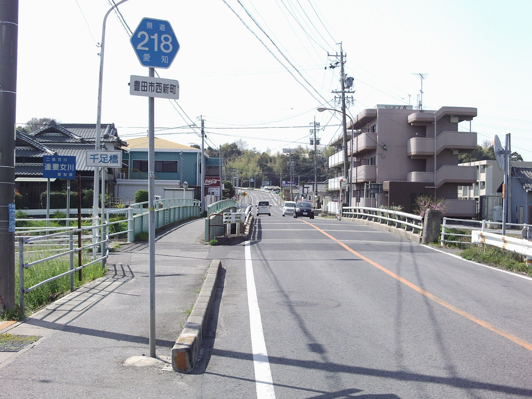 Aichi prefectural road No.218 in Nishishincho, Toyota, Aichi.